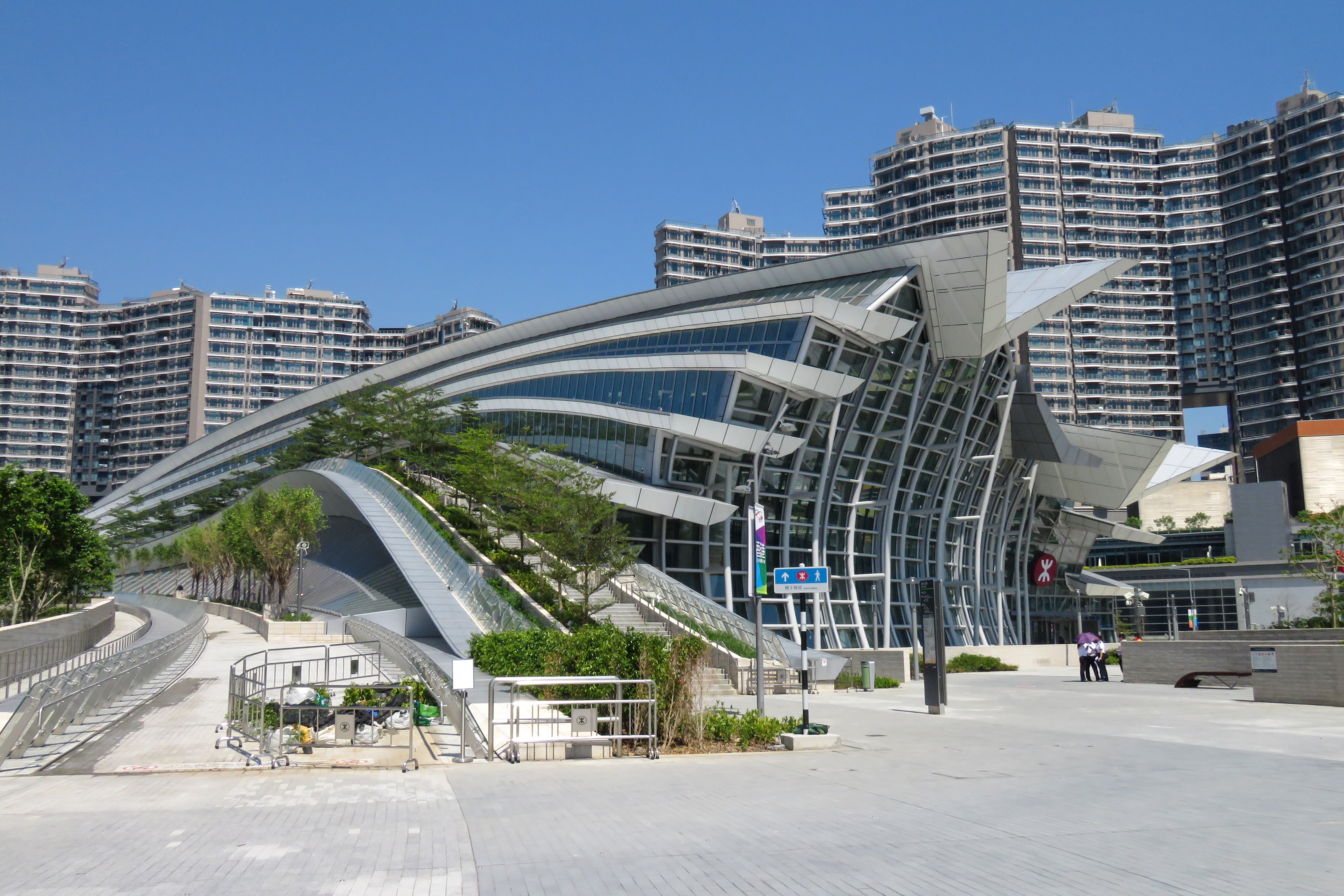 Taken from the station square - where can a better angle be achieved?